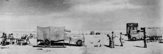 Photograph of dummy filling station and dummy vehicles on the "Diamond" dummy pipeline, part of the military deception Operation Bertram for the battle of El Alamein, October 1942